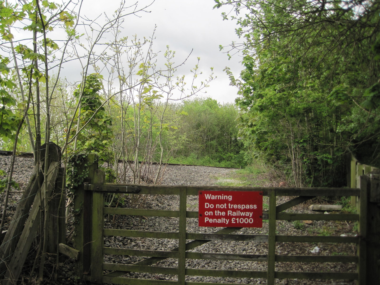 Skinningrove railway station (site), YorkshireOpened in 1875 by the North Eastern Railway on its line from Redcar to Whitby, this station closed to passengers in 1958. View south from the former entrance, now gated. No trace apparently survives.